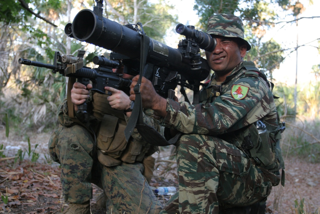 A Marine shows his Timor Leste Defence Force counterpart how to operate a shoulder-launched multipurpose assault weapon during a training exercise in Seisal, Timor Leste. The Marine is from Company E, Battalion Landing Team 2/4, the ground combat element of the 11th Marine Expeditionary Unit.